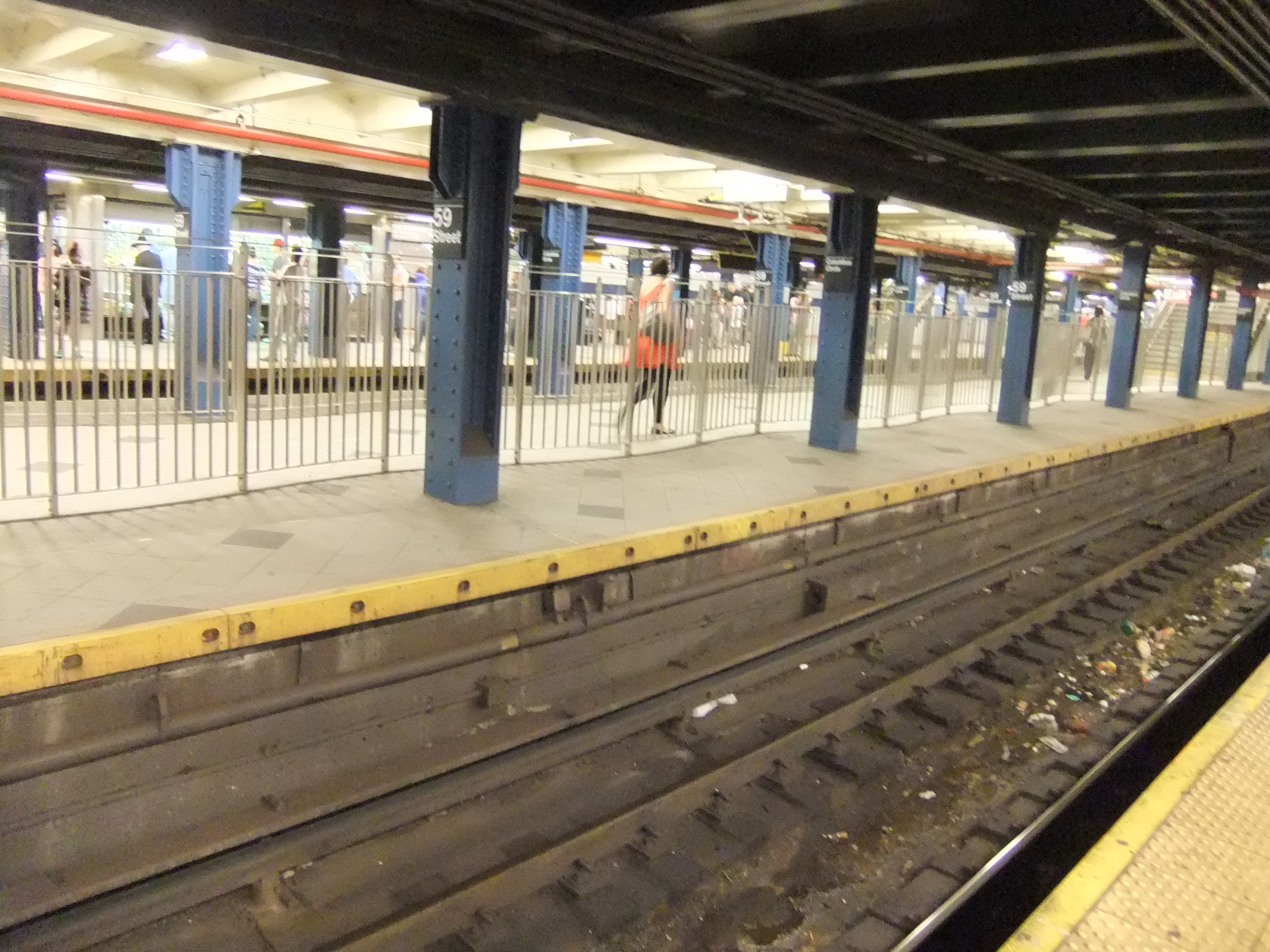 (1) transfer passageway at 59th Street - Columbus Circle, using middle platform.